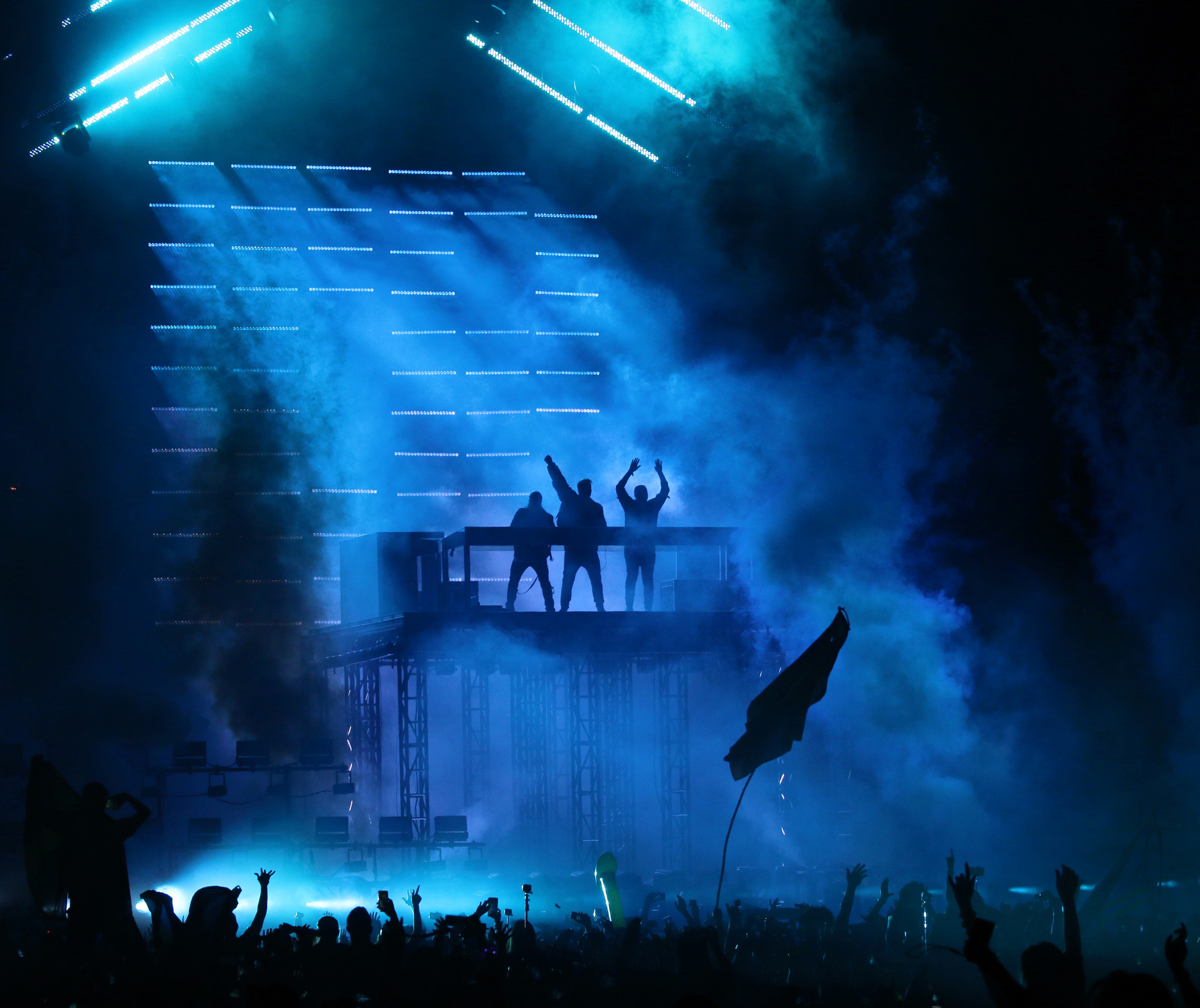 Swedish House Mafia is reunited during ULTRA Miami 2018. Performing from a special platform, the crowd watches on with pure excitement.